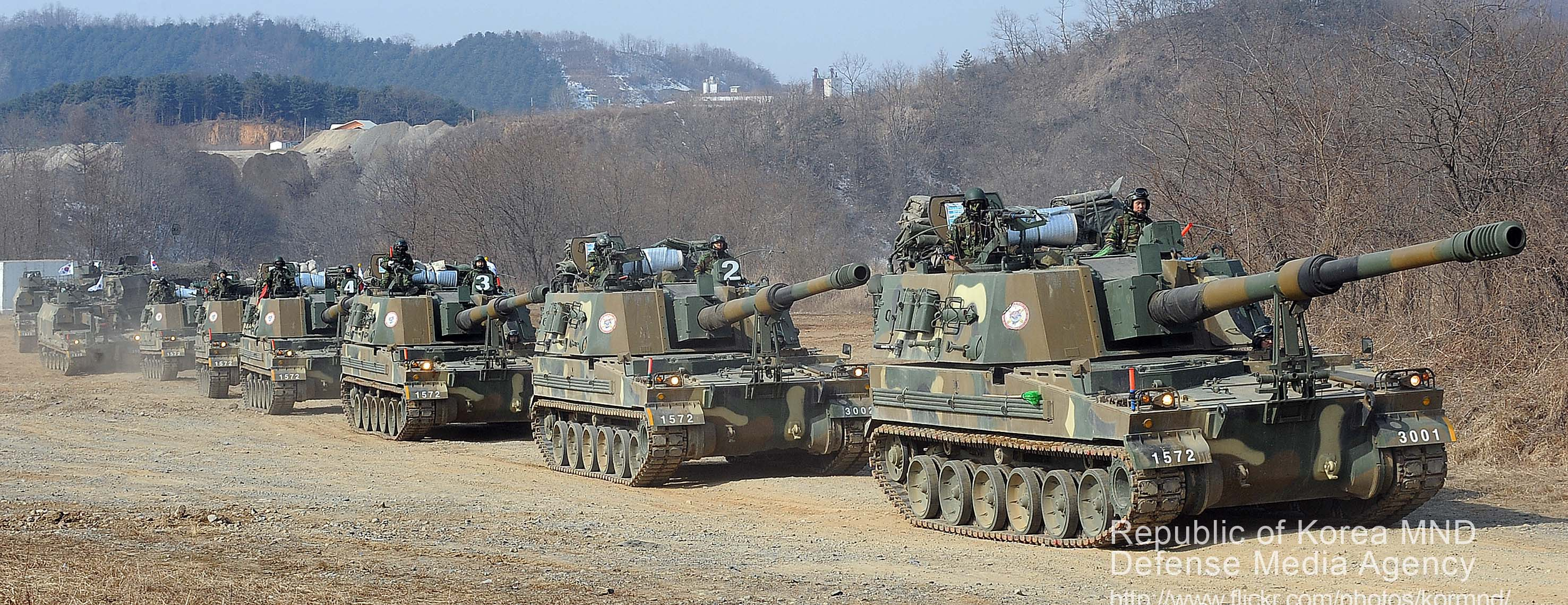 2011 국방화보 Rep. of Korea, Defense Photo Magazine